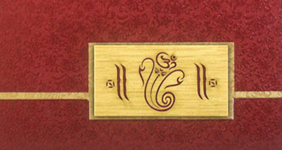 Image shows Lord Ganesha on an Indian Wedding Invitation Card. Every Hindu Card has Lord Ganesha printed on cover or inside page. Lord Ganesha is believed to bring prosperity and happiness to the marrying couple and their family.